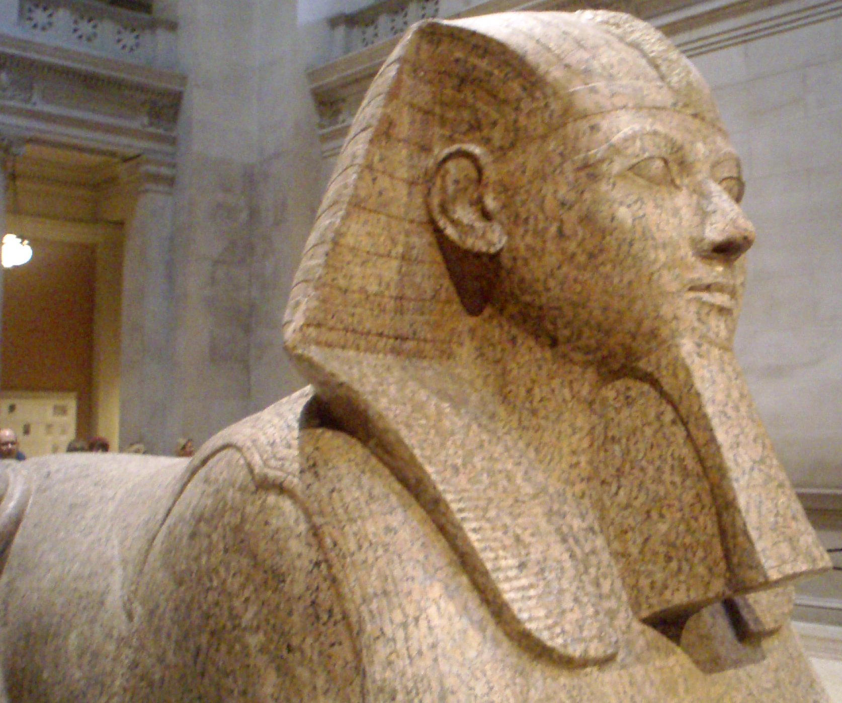 Sideays view of head and shoulders of a large granite sphinx bearing the likeness of the female pharaoh Hatshepsut. Dating to the joint reign of Hatshepsut and Thutmose III, circa 1479-1458 B.C.